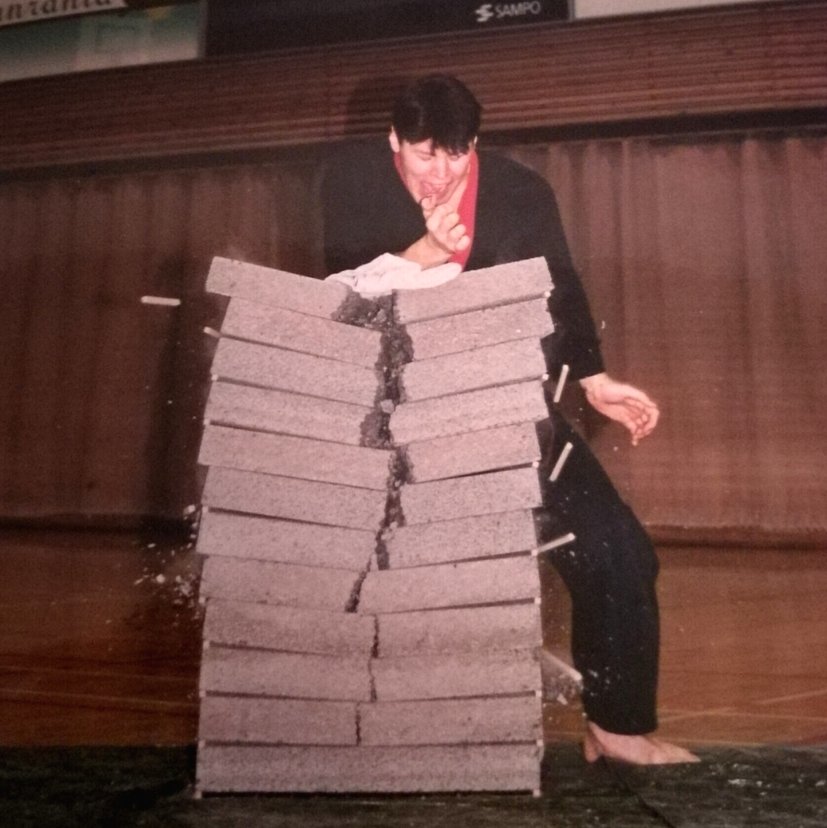 Contest picture, Jarno Strengell in picture. The publisher owns the rights to the image and grants wikipedia / Commons rights to the image.